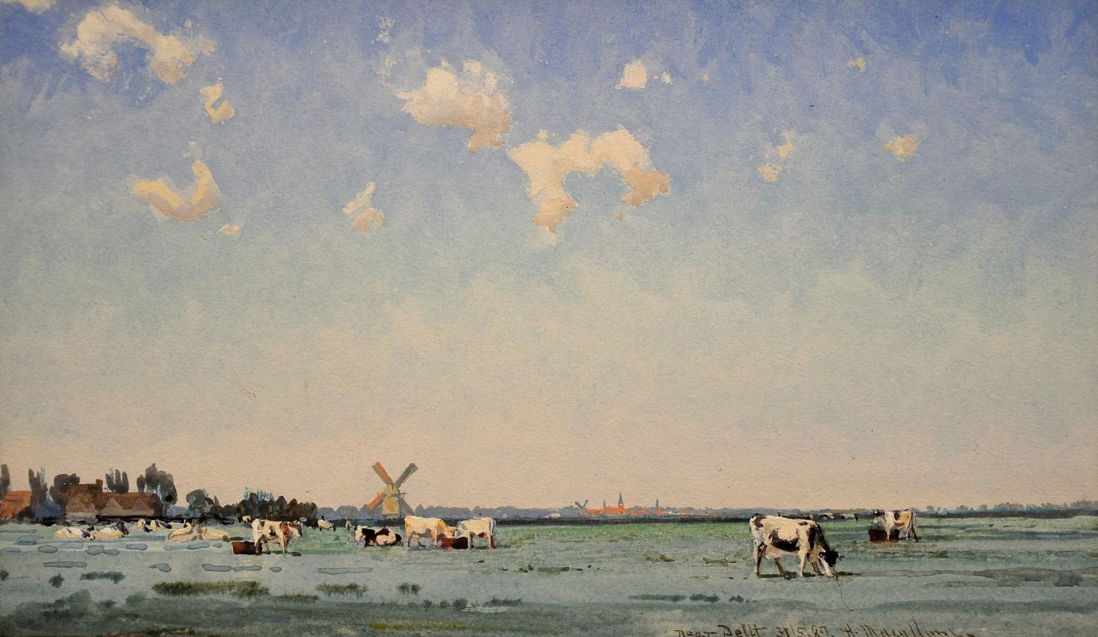 Signed & Dated 31st May 1887 bas droite